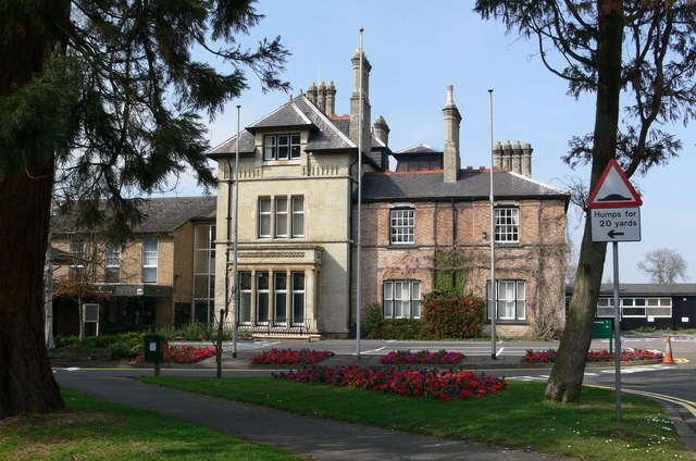 Borough of Oadby & Wigston Council Offices. The main entrance on Station Road in Wigston